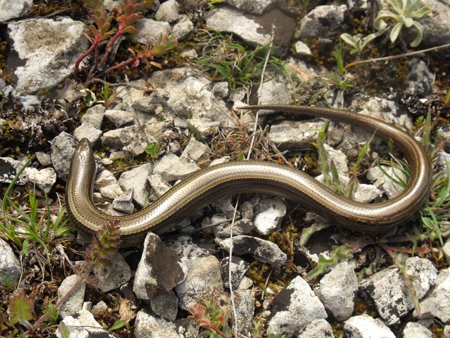 Chalcides chalcides photographed in Gargano area (Apulia, southern Italy) in a dry karstic meadow with Orchidaceae bloom. Photo by Marcelli Massimiliano.